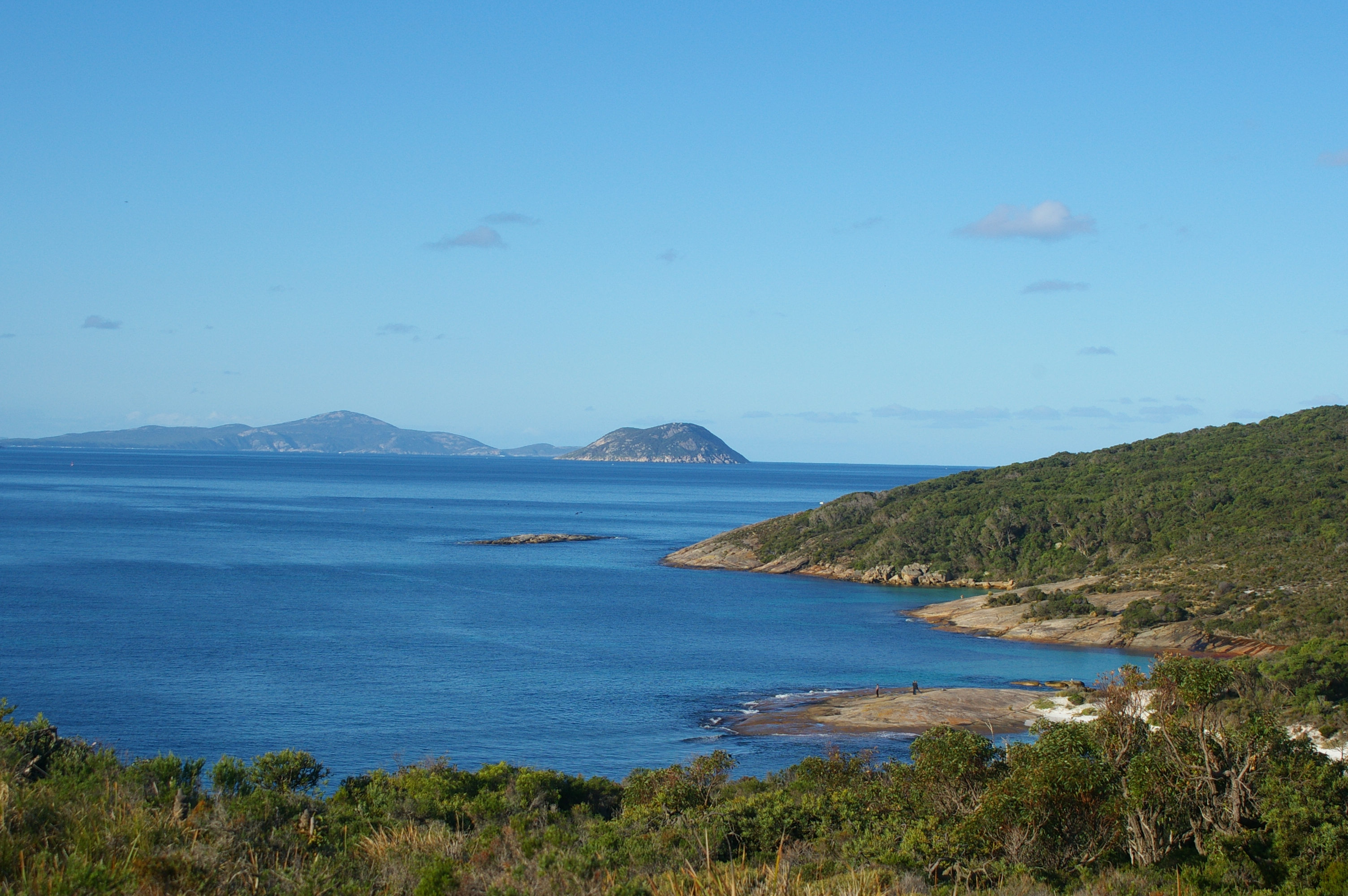 Photo of Whalers Cover on Vancouver Peninsula near point possession looking out toward michaelmas island